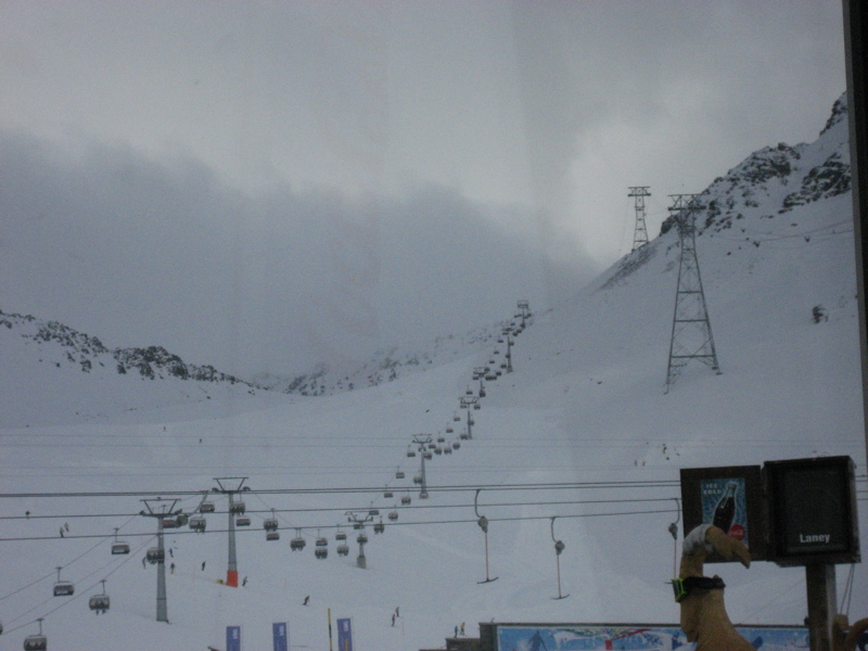 The skis slopes of Parsenn resort, Davos, Switzerland